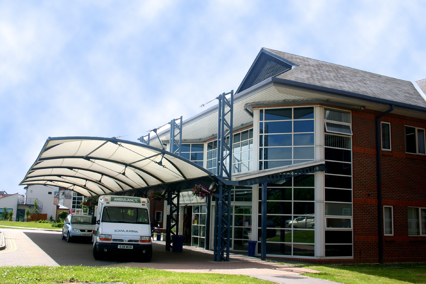 St Richard's Hospital main entrance